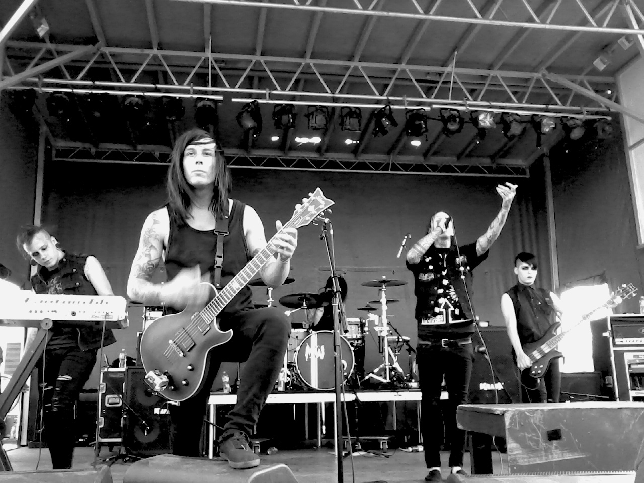 Gothic metal band, Motionless in White performing in Las Vegas in 2011.